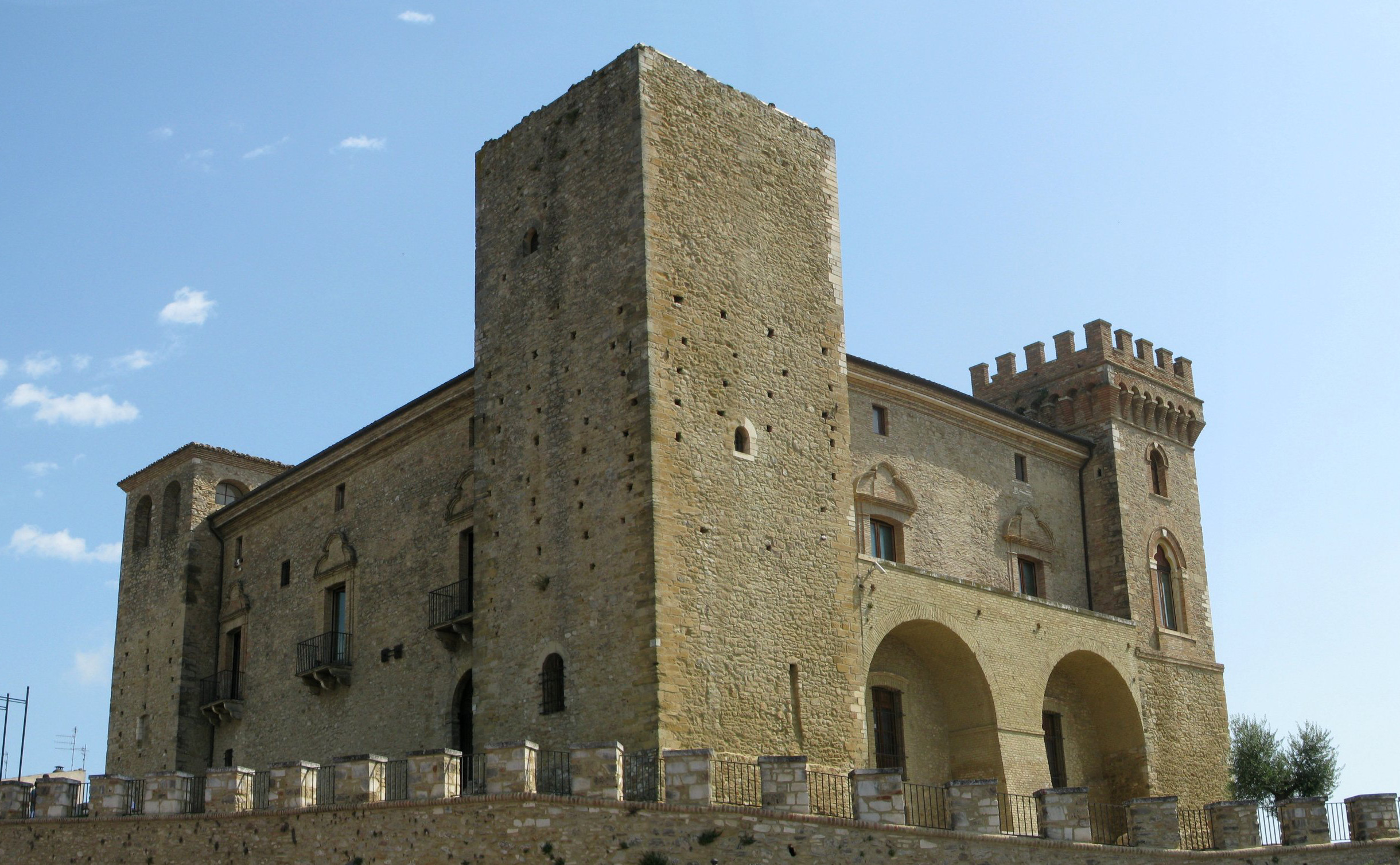 Crecchio is a place of 3000 people in the province of Chieti, part of the Abruzzo region in central Italy. The villageis dominated by its castle. Il Castello Ducale di Crecchio